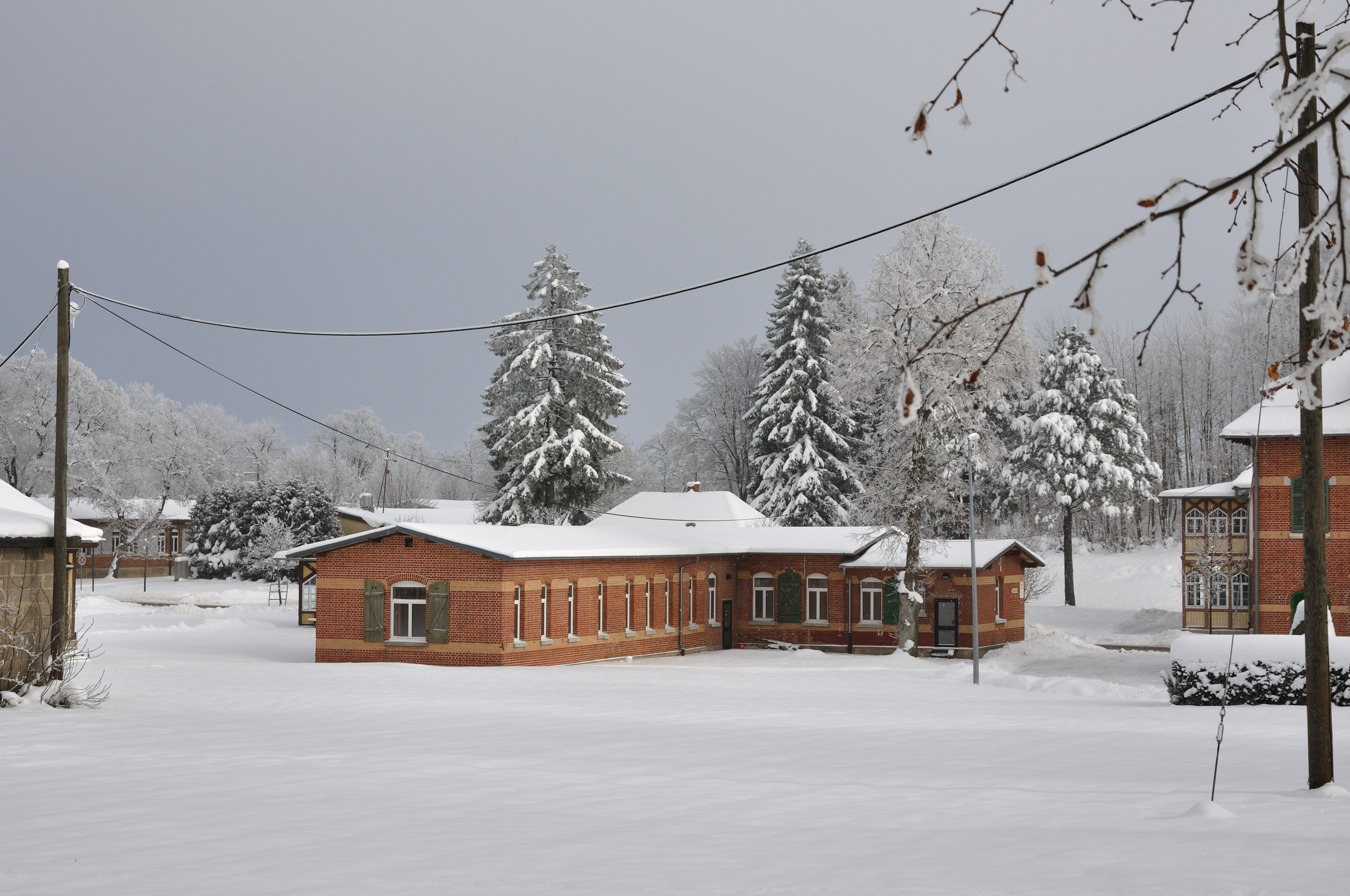 Building in the former barracks "Altes Lager", Münsingen, Germany